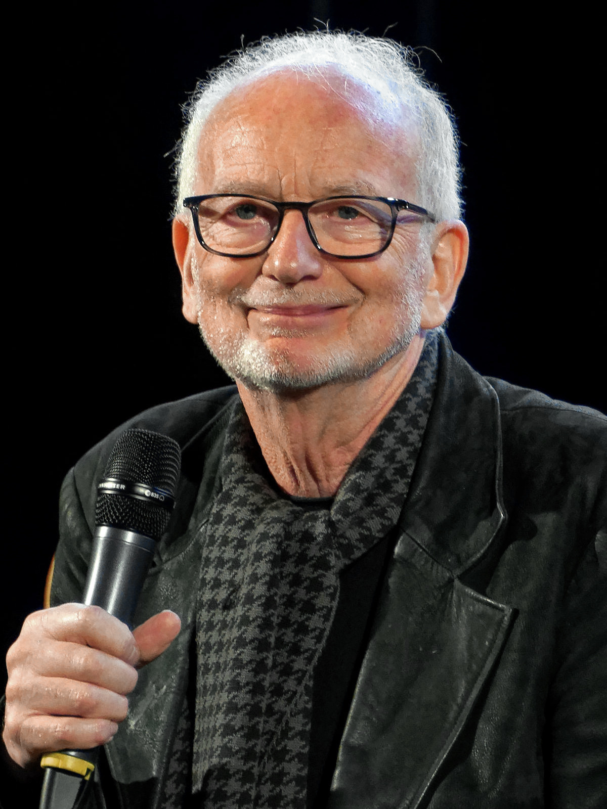 Comiccon Brussels 2020 - Q&A Ian Mcdiarmid IAN MCDIARMID aka EMPEROR PALPATINE aka DARTH SIDIOUS We are incredibly proud to announce the next guest! It is the main antagonist of all Star Wars films! From the very beginning 43 years ago to the very last movie Star Wars: The Rise Of Skywalker that is still in theaters. The destroyer of the Jedi council, the puppeteer of Darth Vader, Kylo Ren and the entire Sith order! It's Darth Sidious aka Emperor Palpatine! This Star Wars greatness comes to the heart of Europe to celebrate the 5-year existence of Comic Con Brussels together with you! We are talking about the one and only Ian Mcdiarmid! ( Comic Con Brussels is your celebration of geek culture in the heart of Europe! You will find us at the beautiful Tour & Taxis site near the Brussels North train station. At Comic Con Brussels you will find Dealers, Artists, Actors, ... It's a Con that brings together all the things you love: Comics, cosplay, gaming, films, manga, collectibles, anime, tv series, clothing, toys, gadgets and lots more!!! )